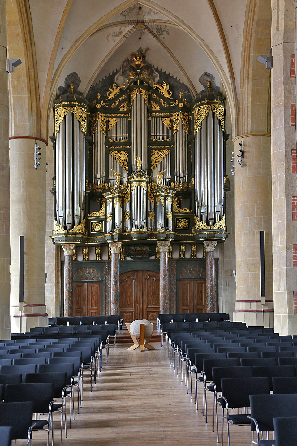 Martinikerk is the oldest and largest church in the Dutch city of Groningen. The Romanesque-Gothic basilica of the 13th century has one of the largest Baroque organ in the Netherlands.